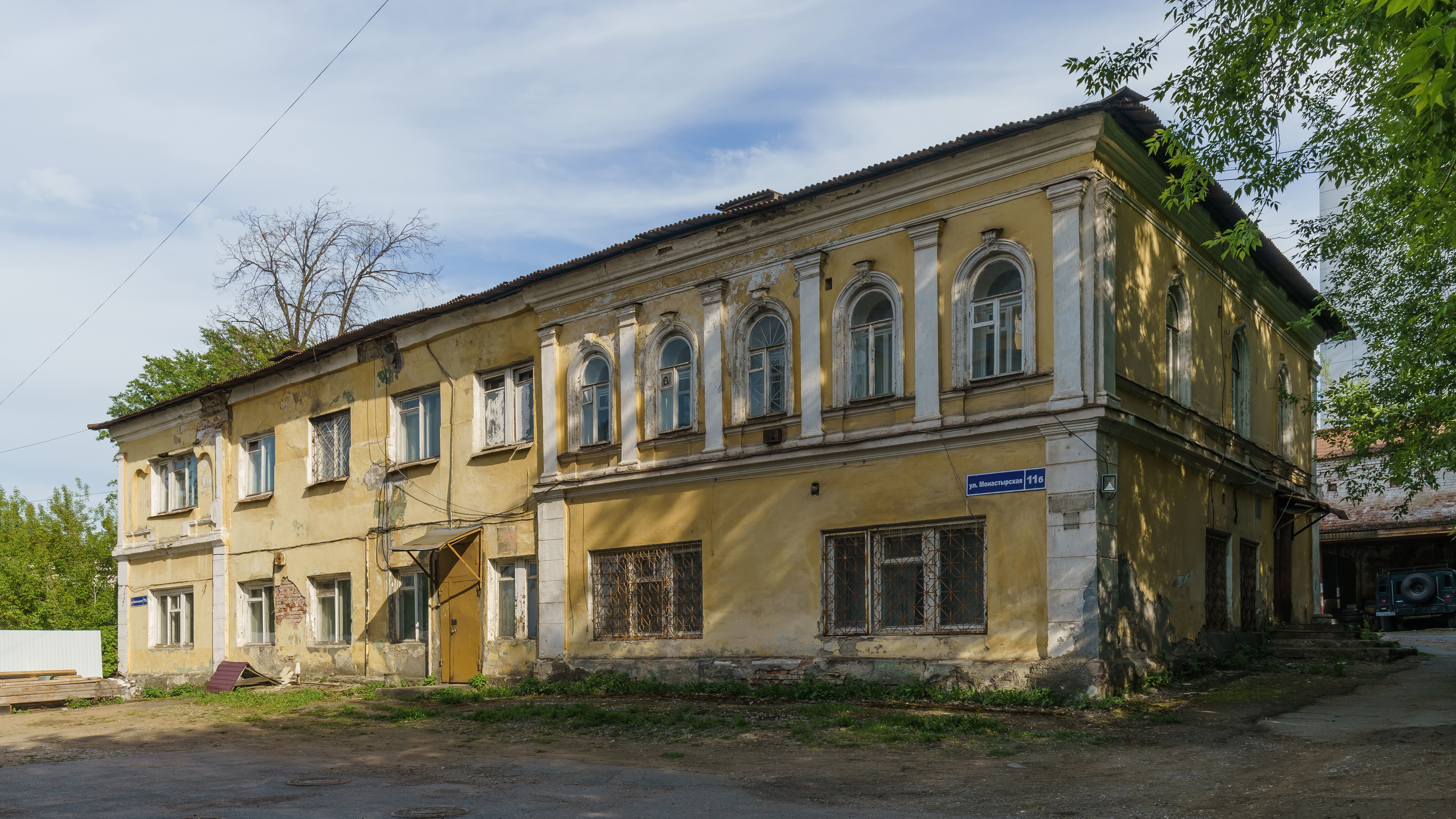 Building ensemble at Monastyrskaya Street 11 in Perm, Russia